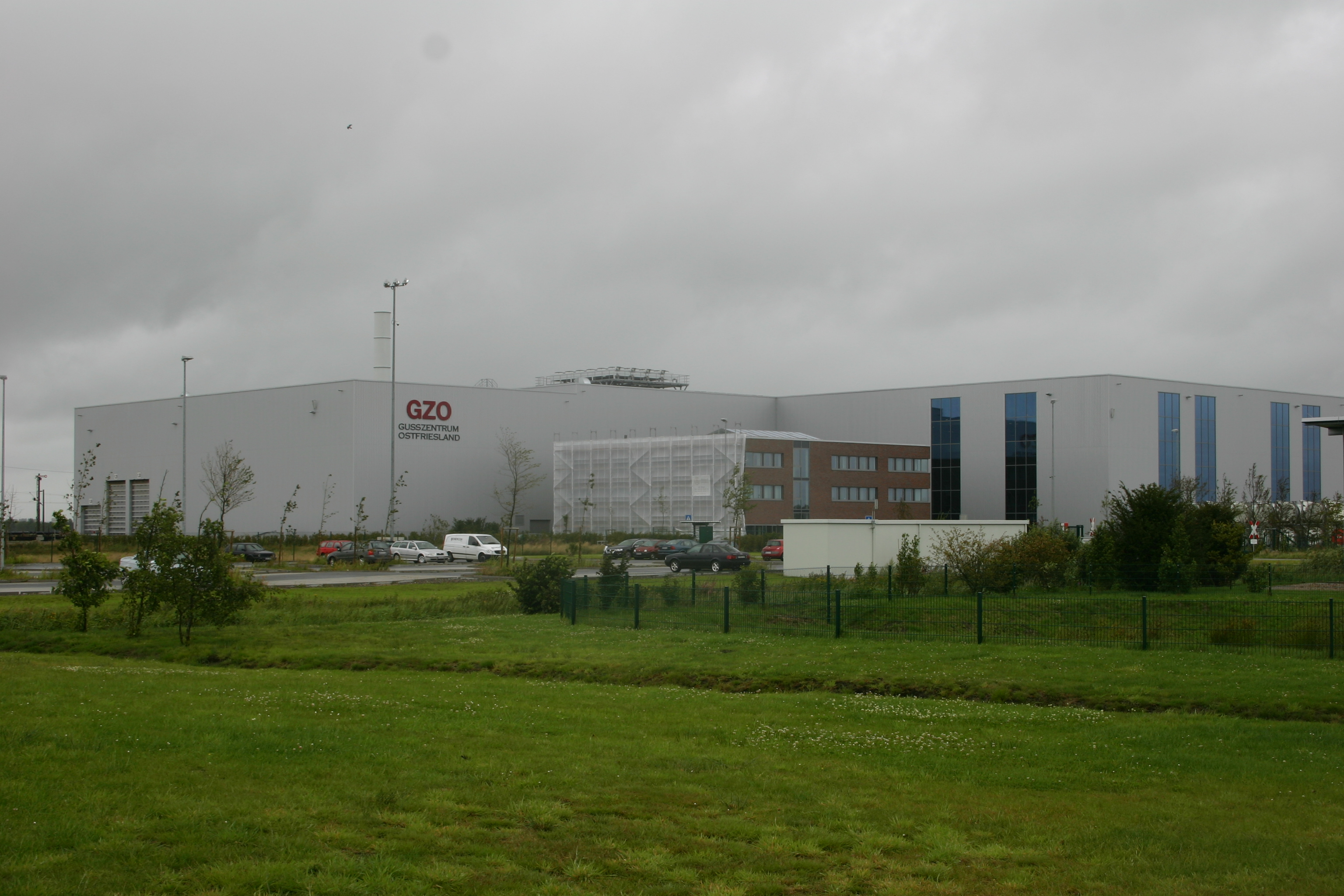 Enercon (subsidiary GZO) plant in Georgsheil, community of Südbrookmerland, district of Aurich, East Frisia, Germany